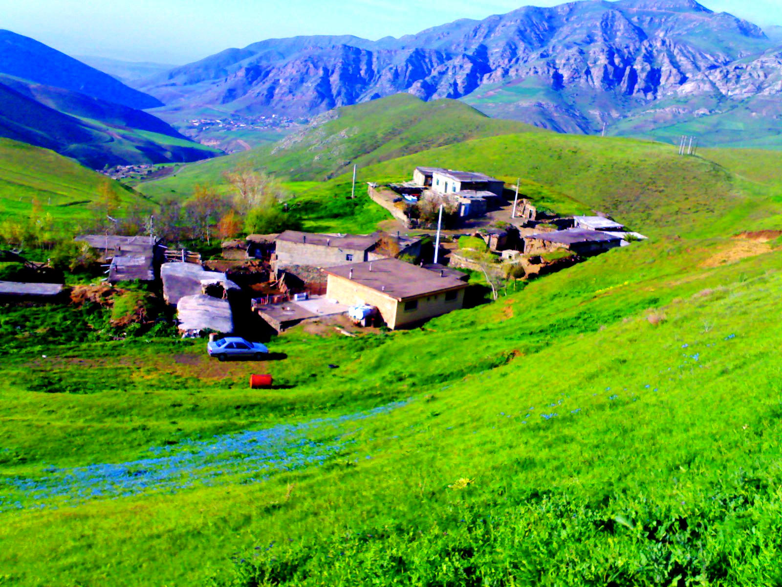 KHAN KANDI Village in IR of IRAN